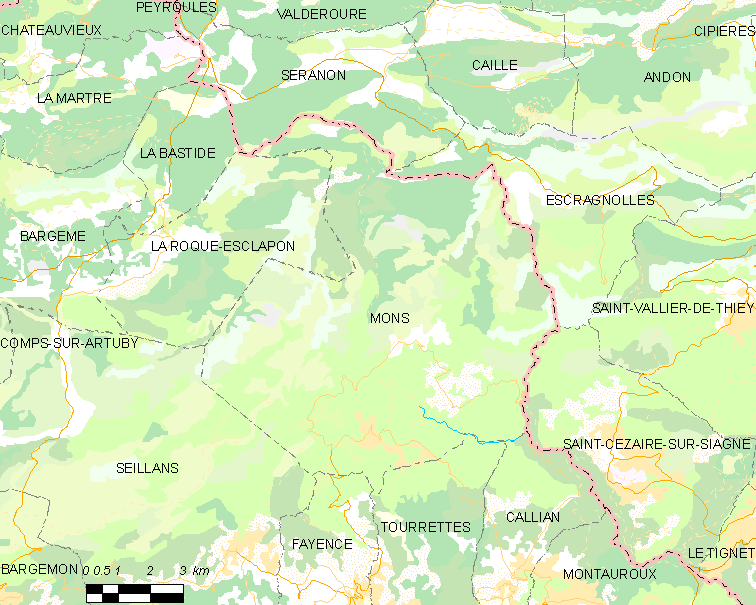 Map of French municipality Mons